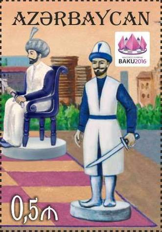 The 42th World Chess Olympiad. Baku 2016. N 1271 – 1275 - 50 qapik of each. There are pictured stylistic chessmen on a chessboard on stamps and the townscape of Baku from the seaside boulevard at a background. Also there are pictured the special logo and a talisman devoted to the Olympiad on the stamps. The stamps are devoted to the 42th World Chess Olympiad in Baku from September 1 to September 14, 2016.